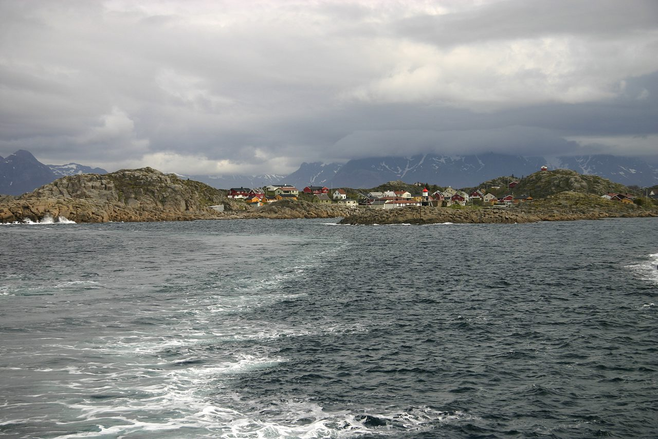 Skrova in Lofoten, Norway. This island jewel of the Vestfjord offers the best views of “Lofotveggen”, the “wall” of mountains that runs through the Lofoten Islands. With its population of around 230 (2005), Skrova has been a centre for fisheries and whaling for many decades. This authentic fishing village offers visitors the chance to relax in peaceful surroundings.